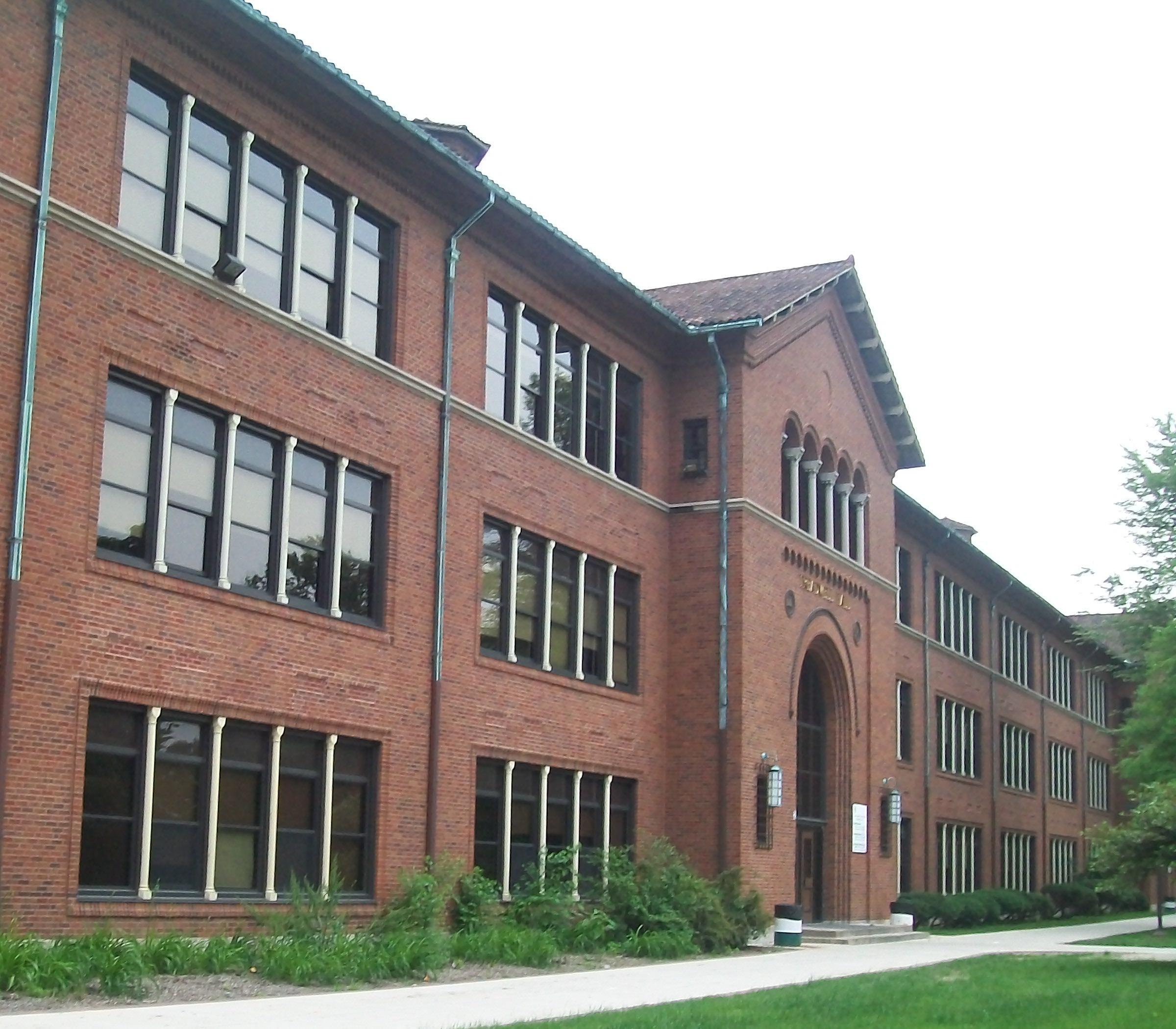 The front facade of Treadwell Hall on the campus of Arsenal Technical High School, Indianapolis. It is one of the main buildings used for classes.